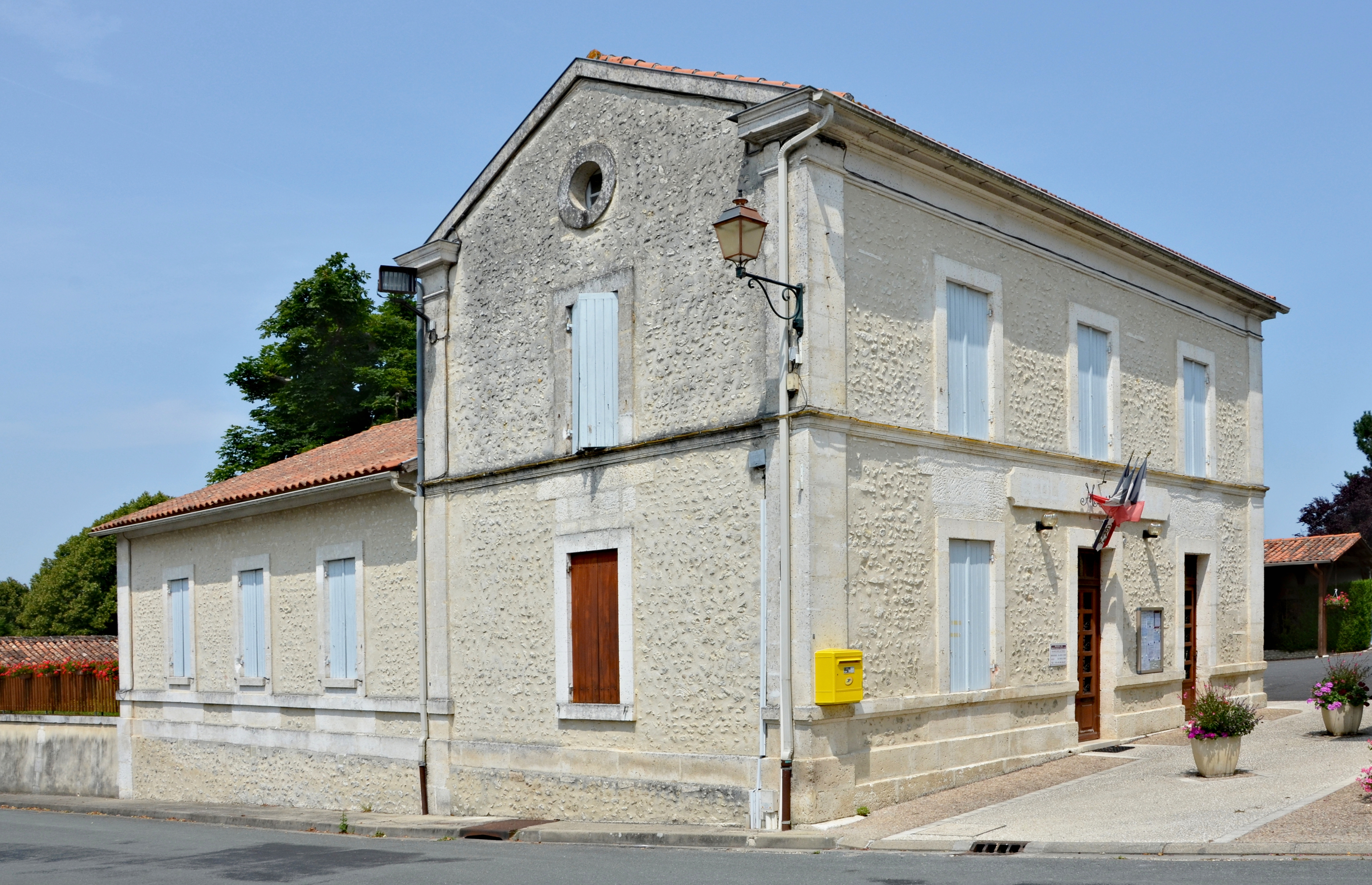 City hall of Brie-sous-Chalais, Charente, France.